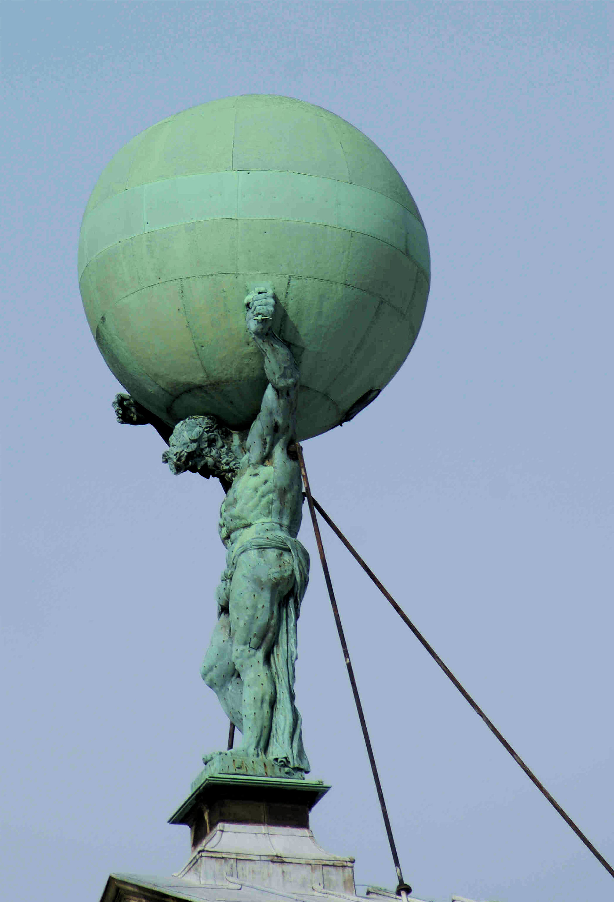 Atlas, Royal Palace Amsterdam